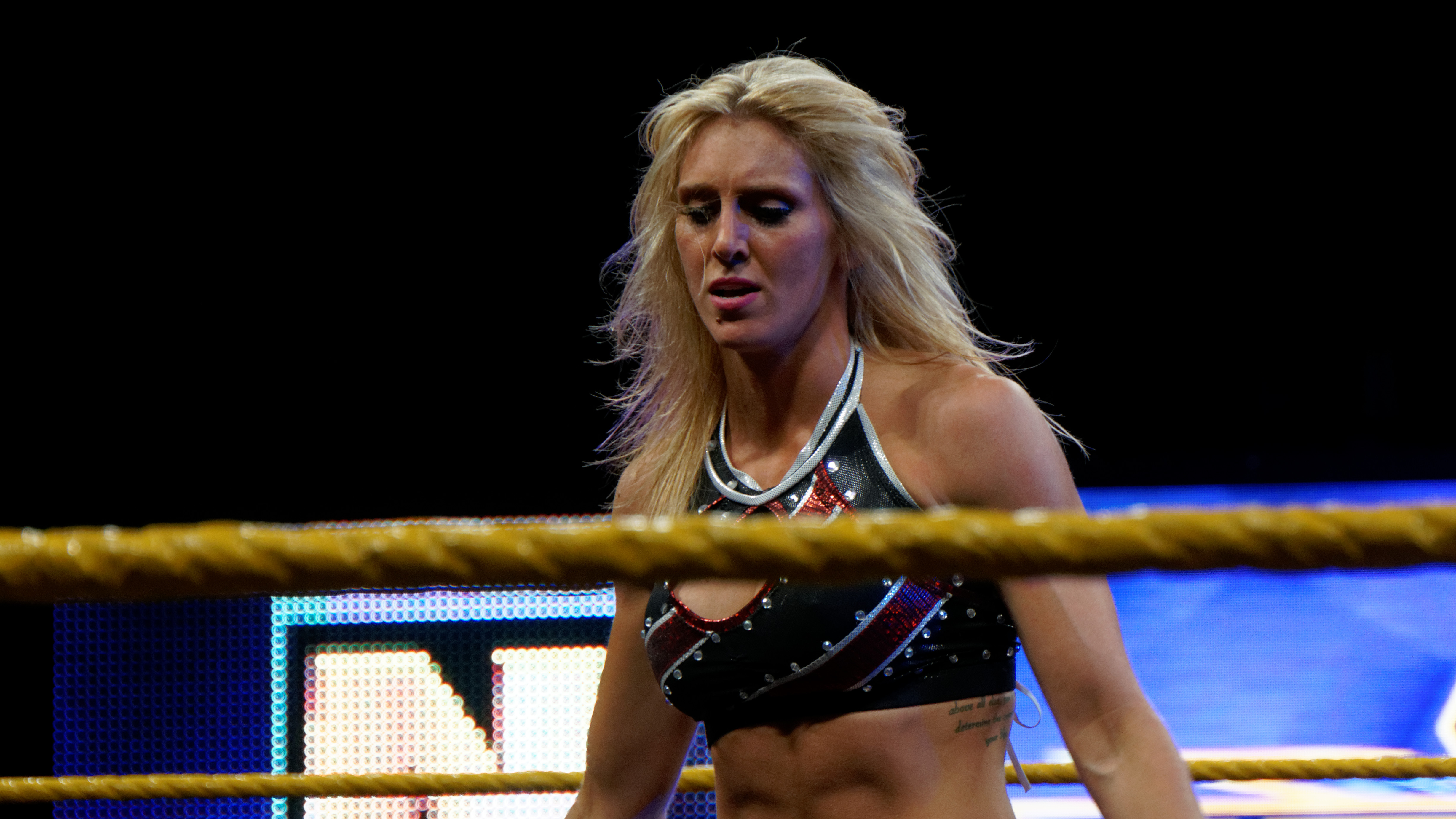 Charlotte at WrestleMania Axxess in April 2014